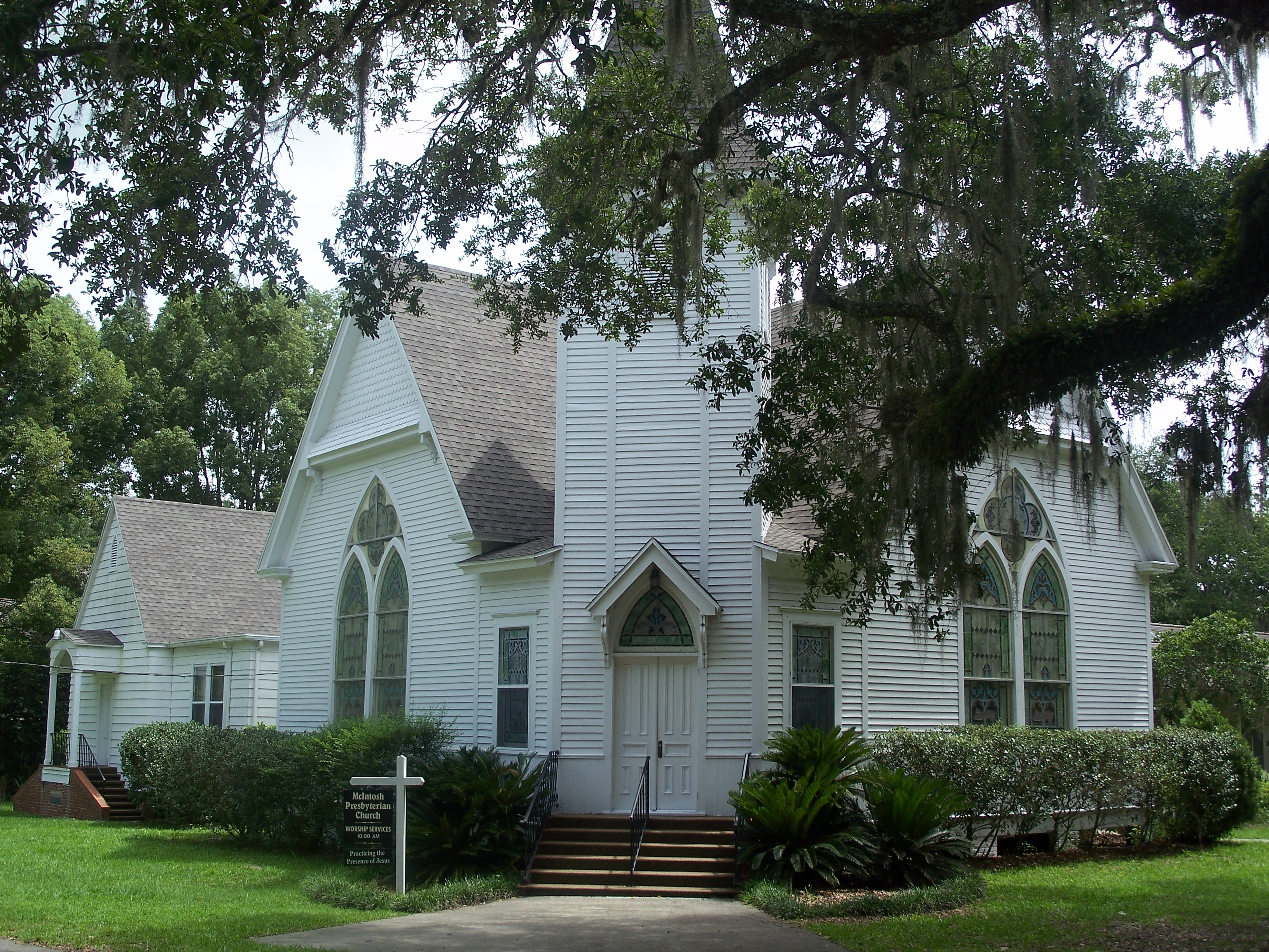 Methodist church in the McIntosh Historic District. The district is on the National Register of Historic Places